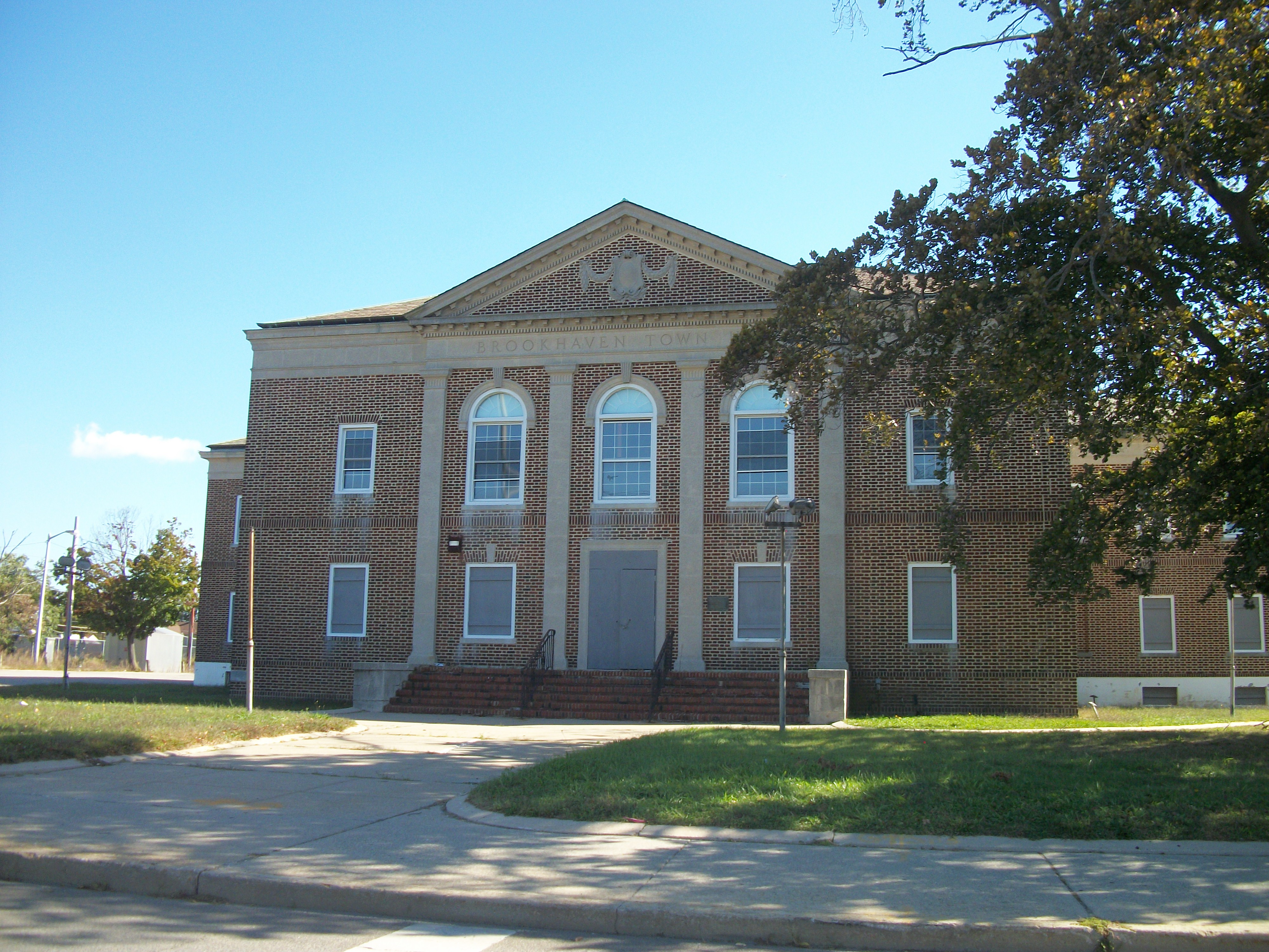 The former Town of Brookhaven Hall on the northeast corner of South Ocean Avenue and Baker Street in Patchogue, New York. Patchogue was the Town Seat of the Town of Brookhaven until 1986.